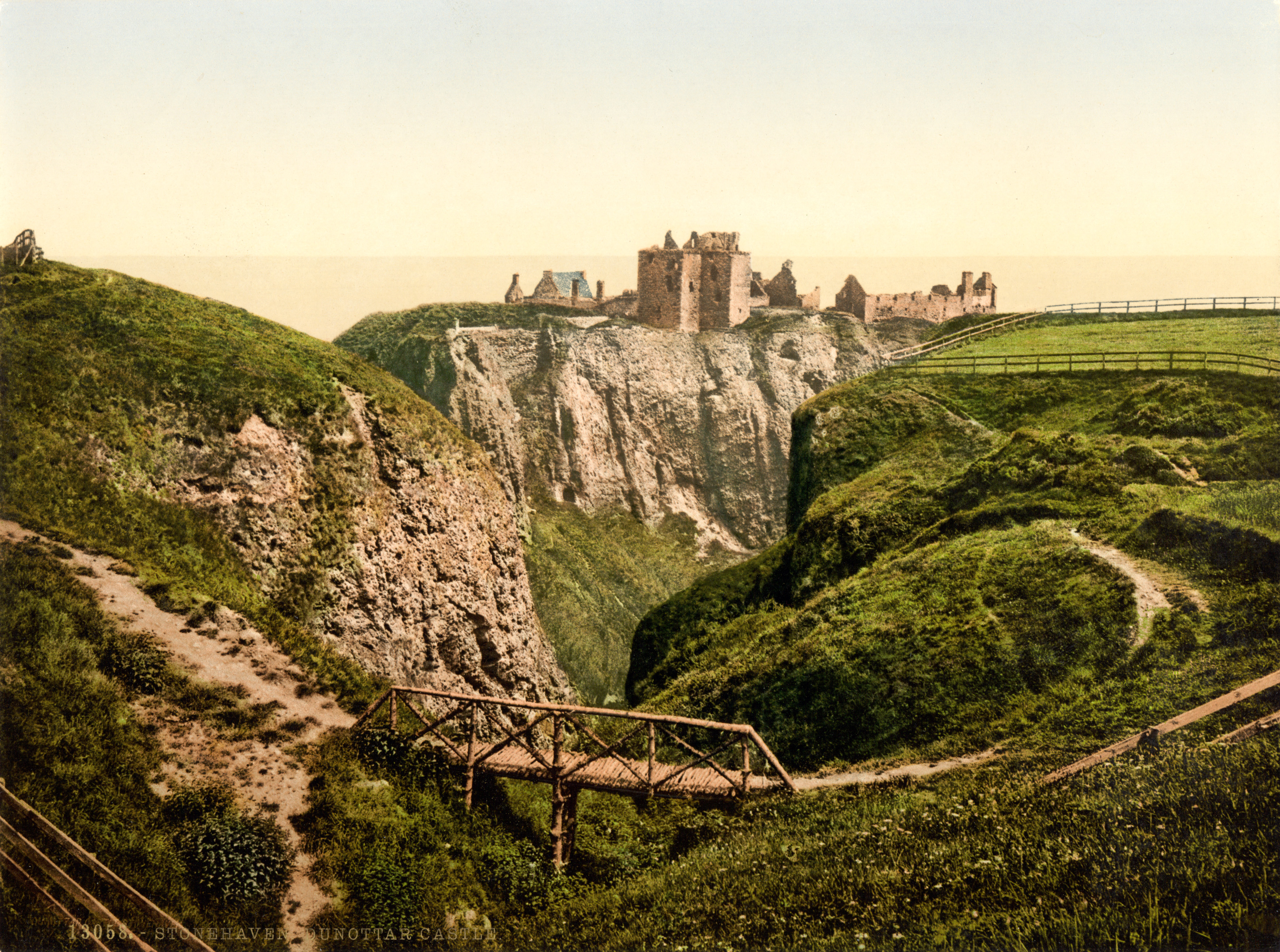 Dunnottar Castle, near Stonehaven, Scotland. 1 photomechanical print : photochrom, color.